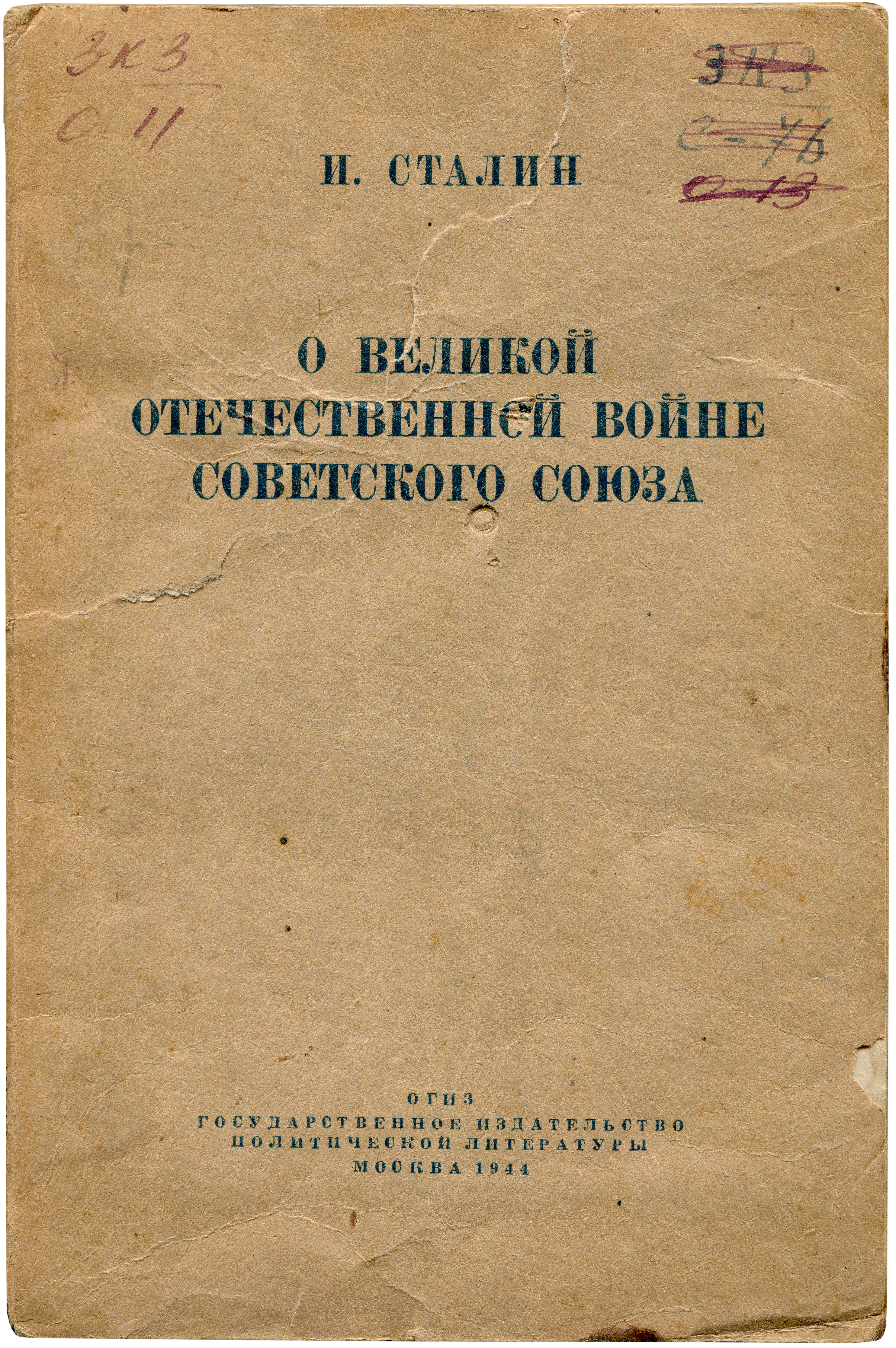 Books by Joseph Stalin. Technical library of the Elektrostal plant.